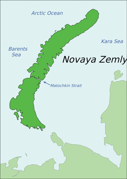 Created by myself.